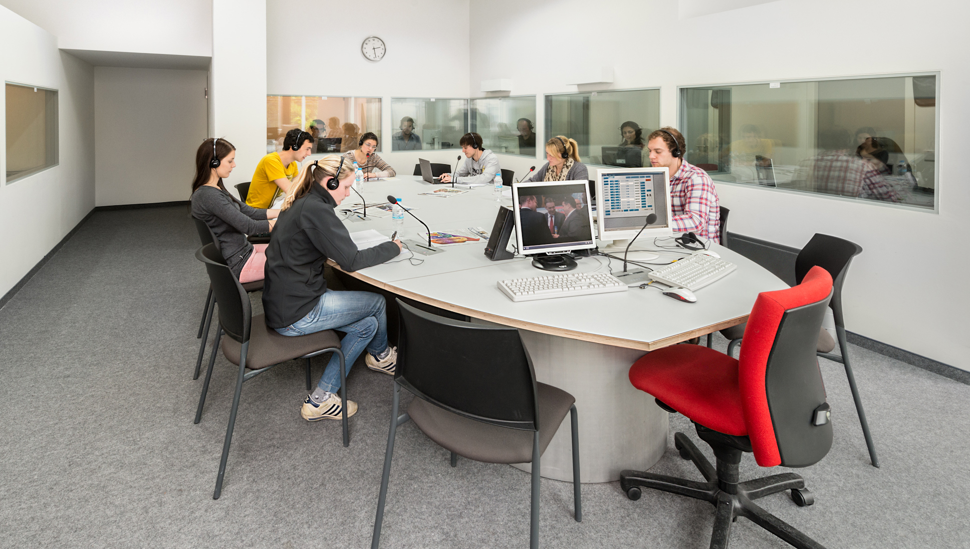 SDI Munich